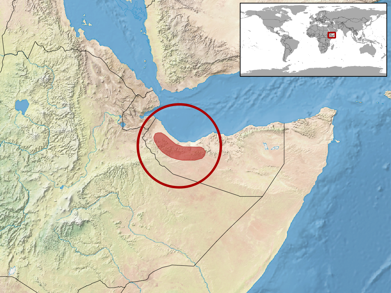 geographic distribution of Hemidactylus arnoldi (Native: Somalia)